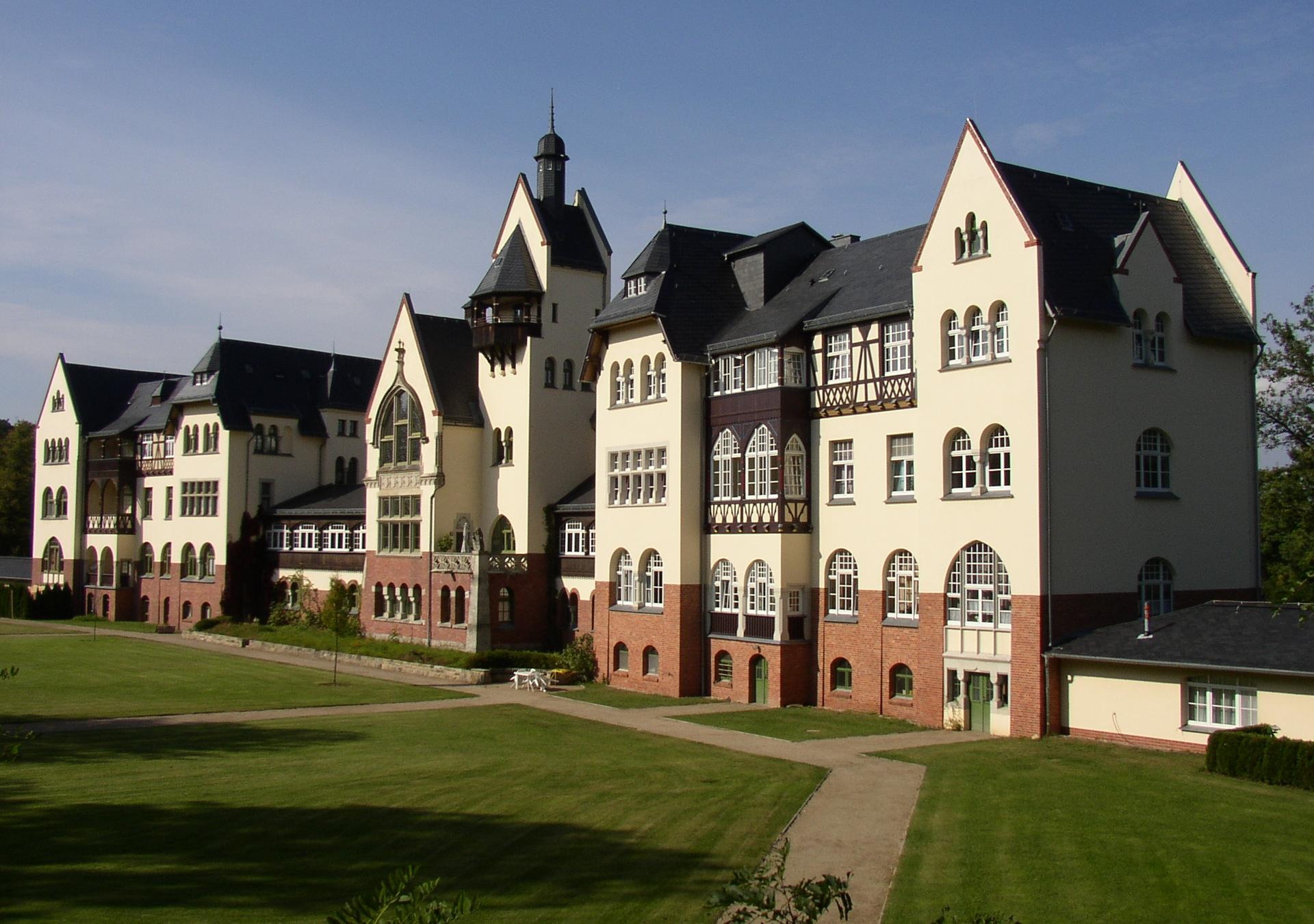 Former sanatorium for consumptives in Müllrose in Brandenburg, Germany